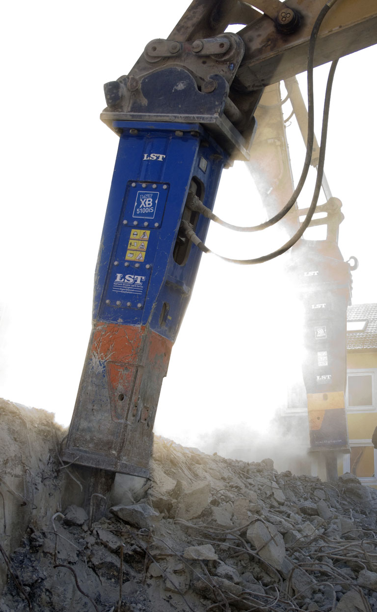 A hydraulic breaker LST XB 5100iS (foreground) and a XB 7900 iS are demolishing a bunker in munich.